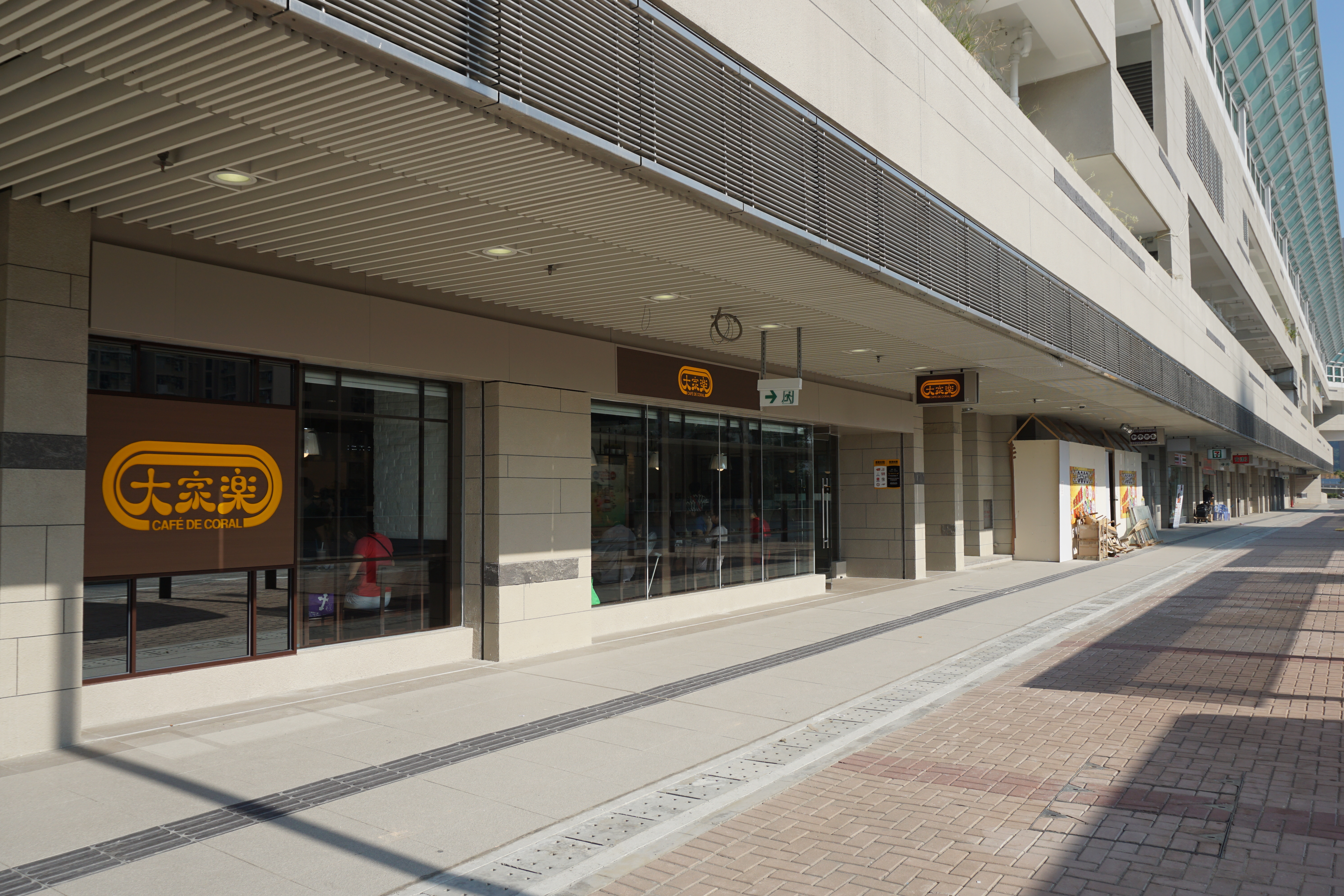 On Tat Shopping Centre in Kwun Tong, Hong Kong.